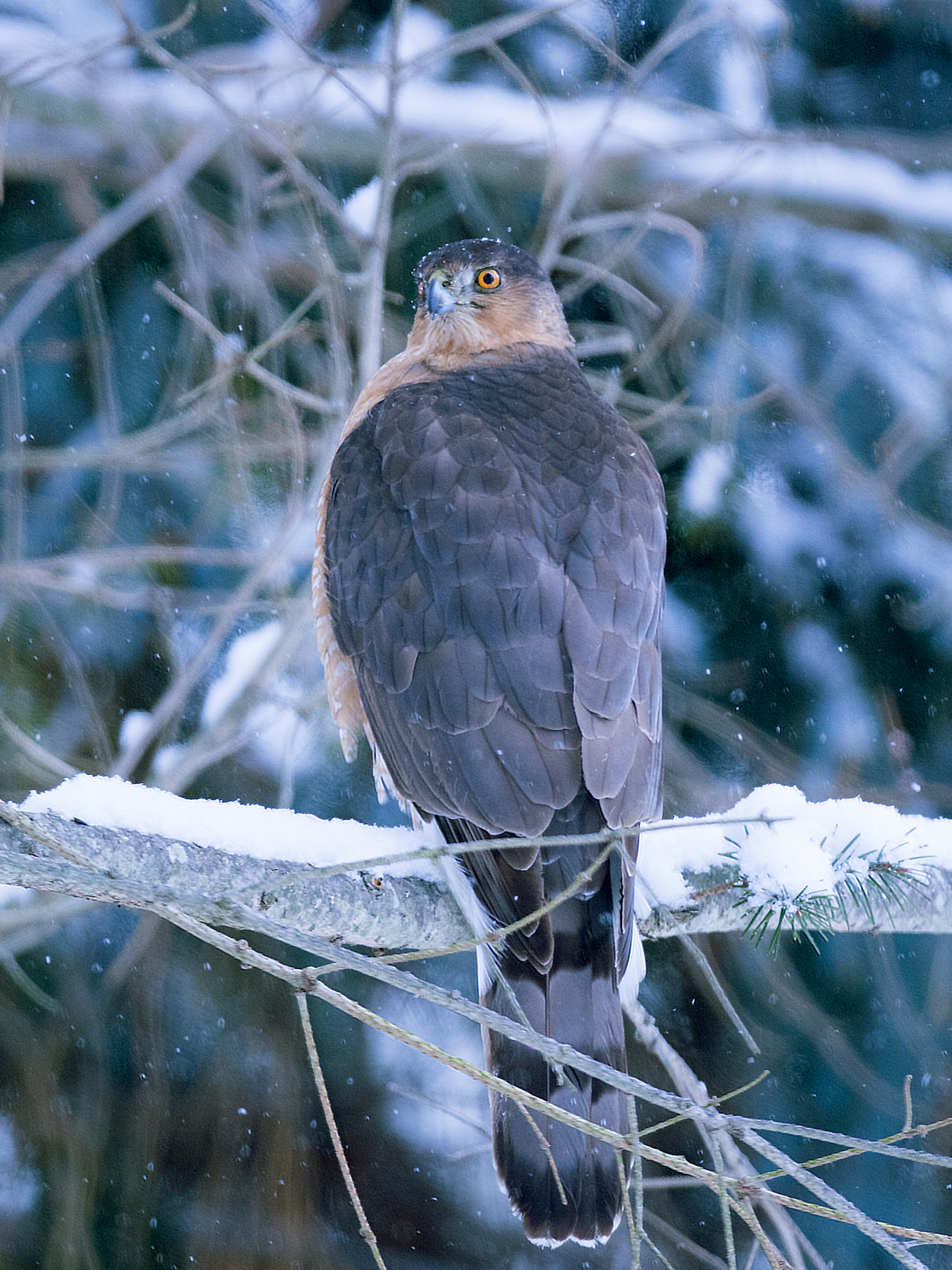 cooper's hawk in snow whitehurst-brown divide